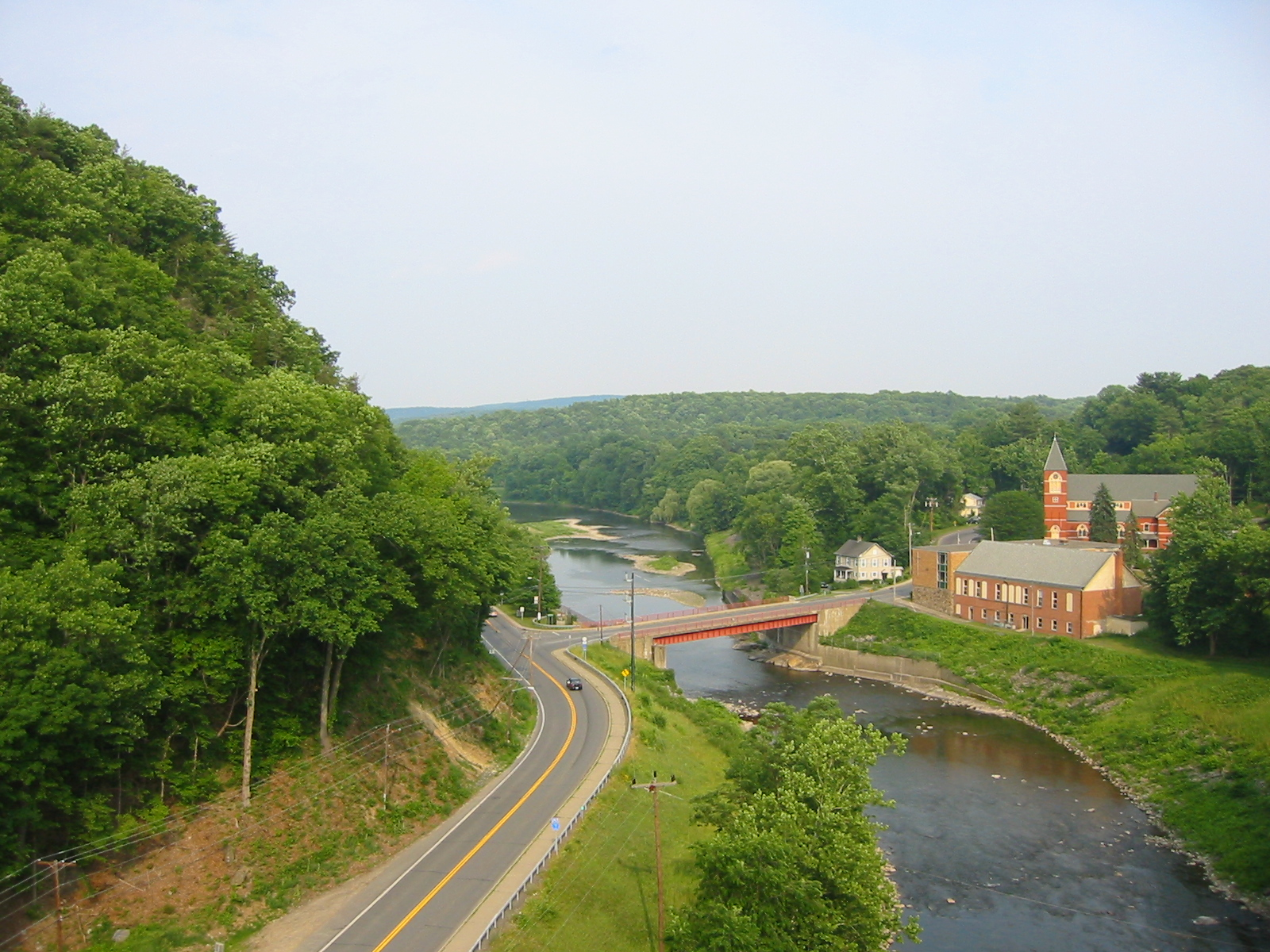 I took this picture while on a trip to Rosendale on the Wallkill Valley Rail Trail in June 2007. I grant Wikipedia full permission to use this image.